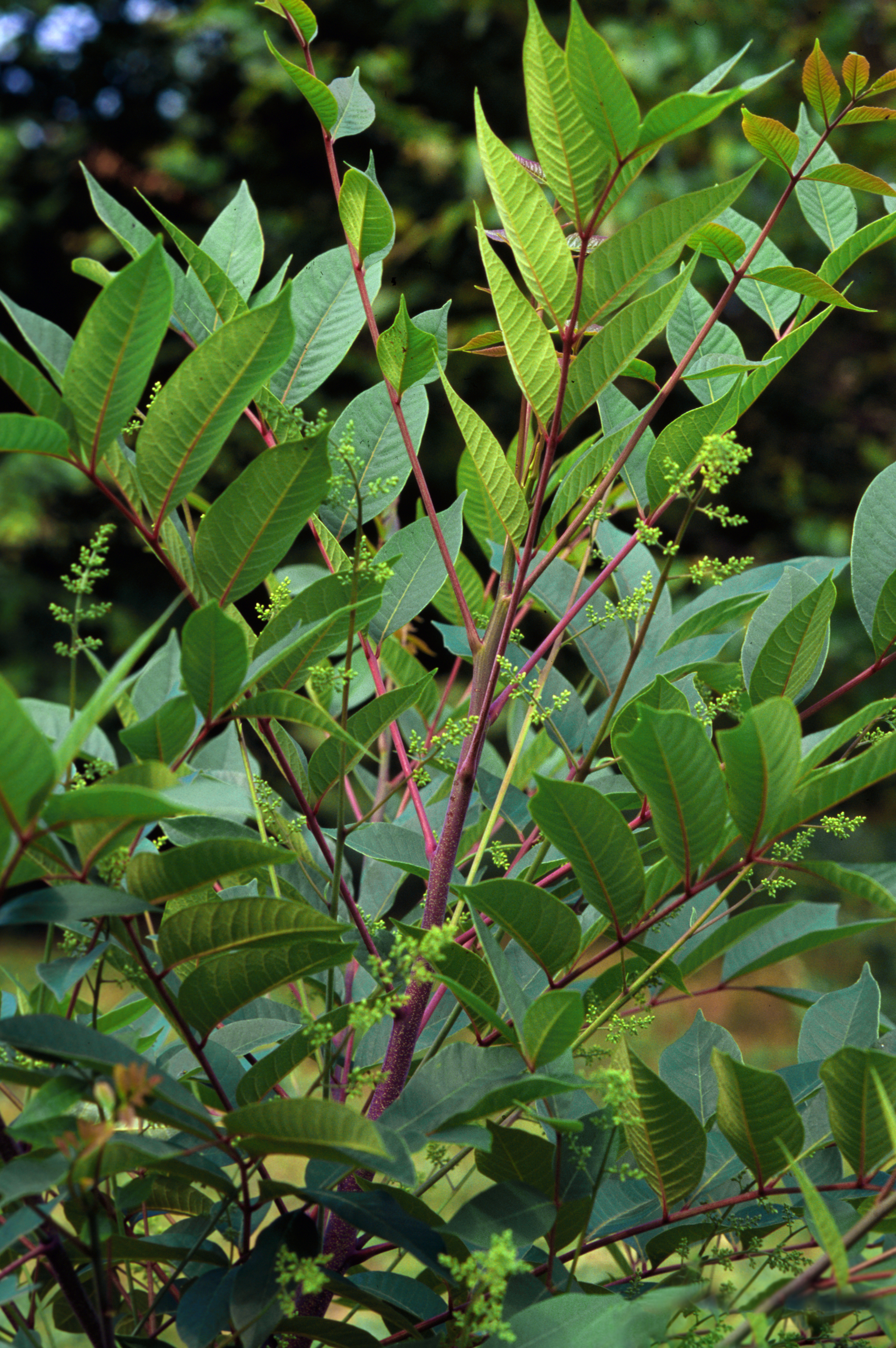 poison-sumac, Toxicodendron vernix (L.) Kuntze Plant(s), May. Photo from Forest Plants of the Southeast and Their Wildlife Uses by J.H. Miller and K.V. Miller, published by The University of Georgia Press in cooperation with the Southern Weed Science Society.